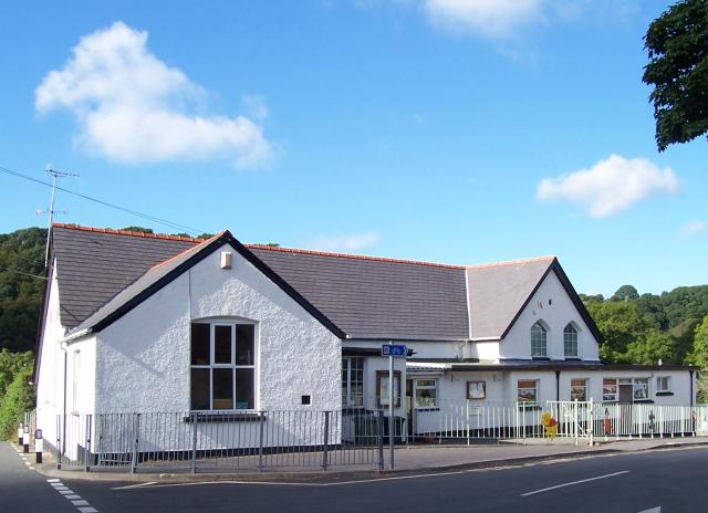 Pontgarreg Primary School. The 'Welsh Not' was used in this school during the eighteenth and nineteenth century in a bid to prevent pupils from speaking Welsh. The 'Welsh Not', which usually consisted of a small piece of wood or slate inscribed with the letters 'W.N', was hung around the neck of a child who was caught speaking Welsh. At the end of the school day, the child wearing the 'Welsh Not' would be punished by the schoolteacher.